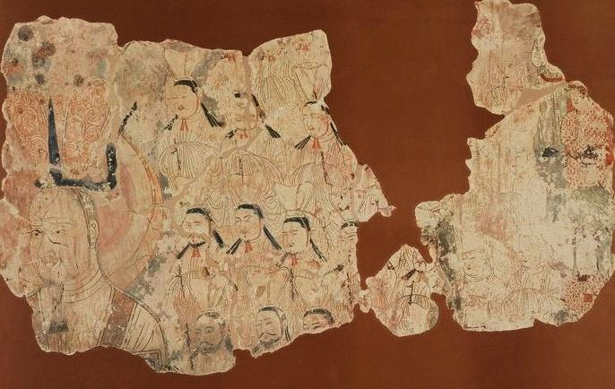 Wall painting of a Manichaean Leader and followers from Chotcho, depicting members of the Manichaean Church, photograph of a now-lost original (H: 88 cm, W: 168.5 cm). Fragment of a Turpan Manichaean Wall Painting; SMPK, Museum für Indische Kunst (Berlin), MIK III 6918.